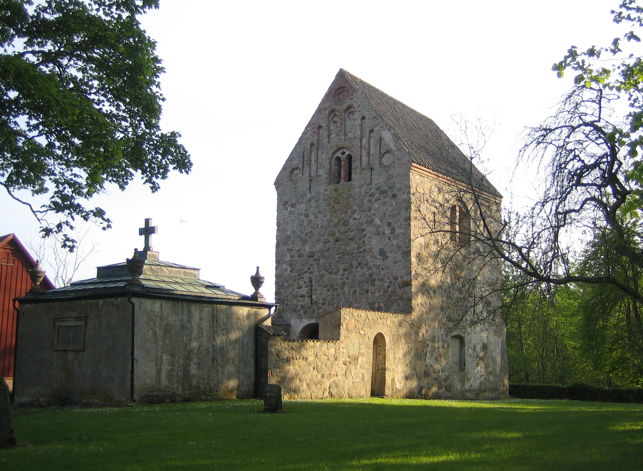 The church ruins of Balkåkra, Skåne, Sweden